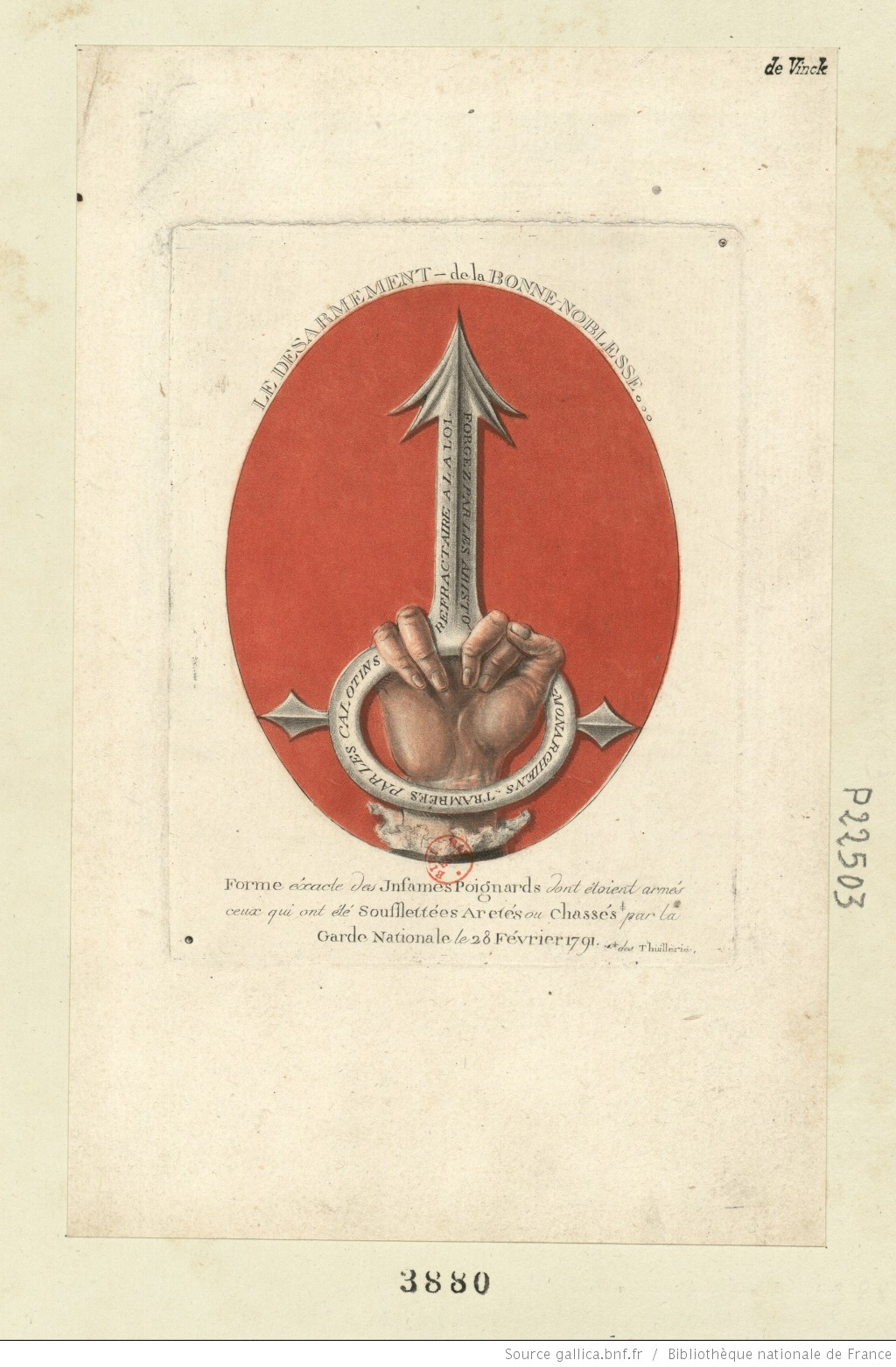 Le désarmement de la bonne-noblesse... : forme éxacte des infames poignards dont étoient armés ceux qui ont été souffletées aretés ou chassés par la Garde nationale le 28 février 1791